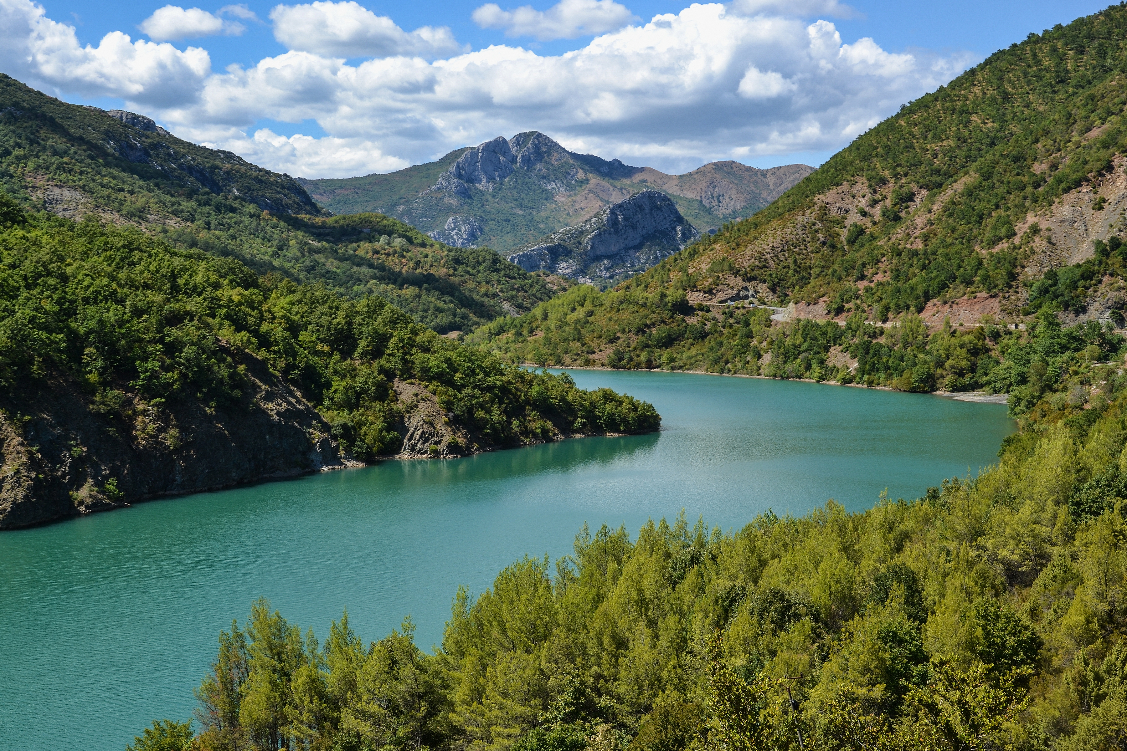 Lake Shkopeti, Albania